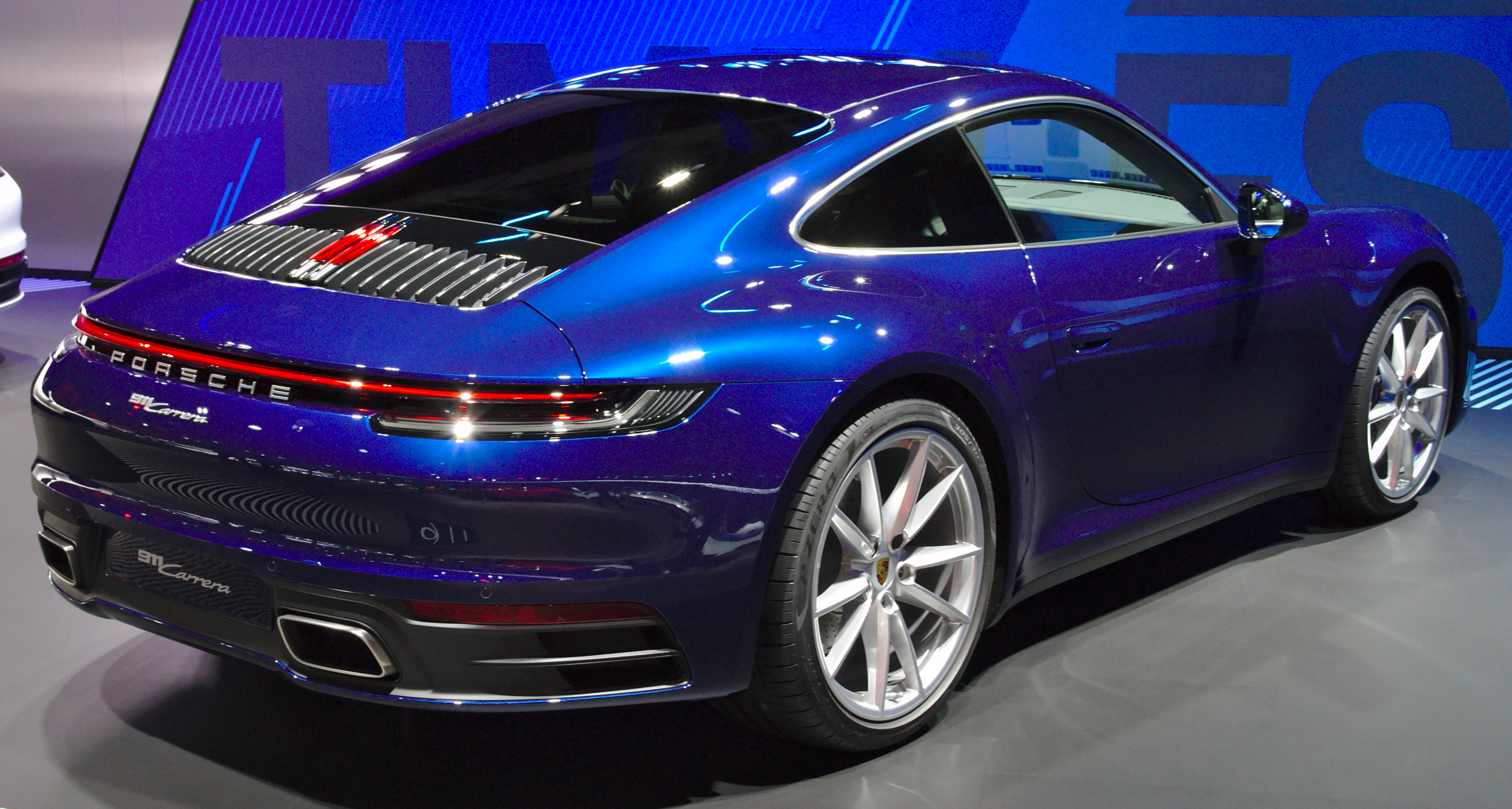 Porsche_992_Carrera at IAA 2019